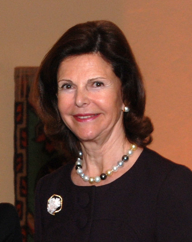 Award ceremony of the Astrid Lindgren Memorial Award 2010: Kitty Crowther and Queen Silvia of Sweden after the ceremony